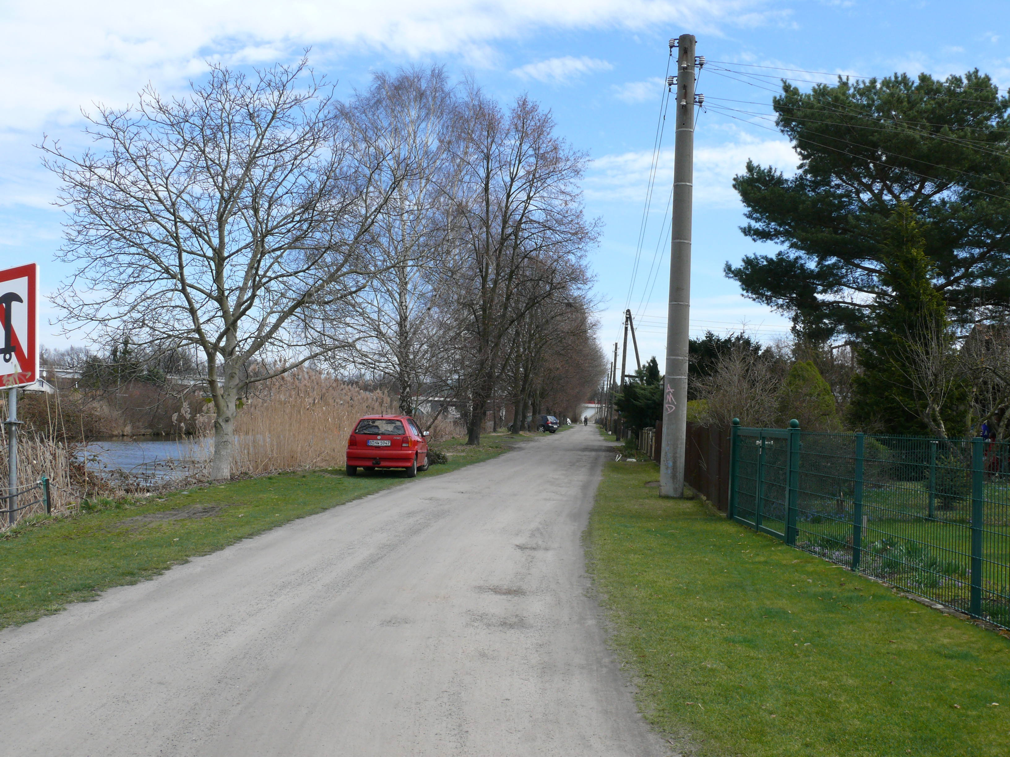 Berlin-Altglienicke KGA Bodenreform